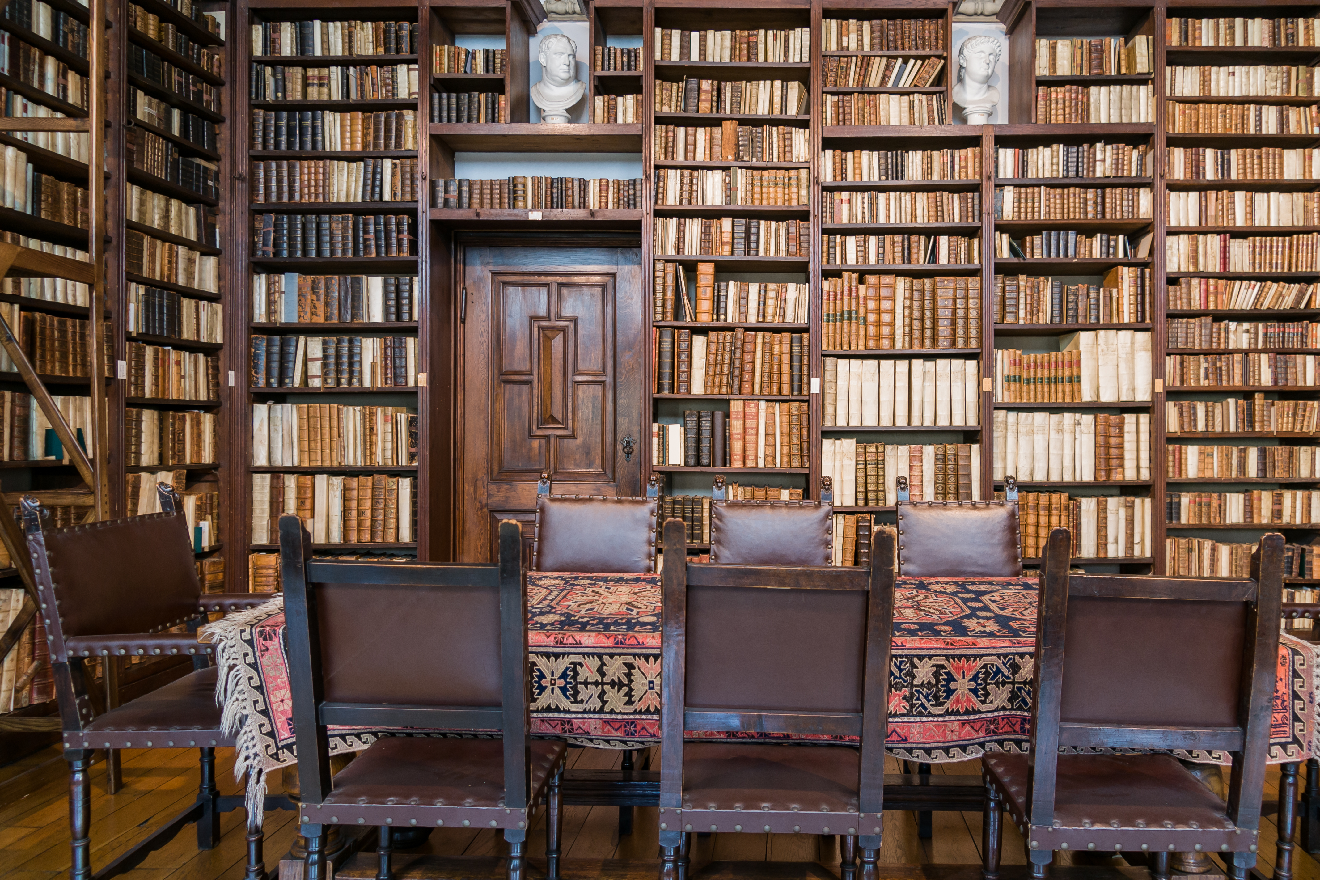 Antwerp, Belgium: Interior of Museum Plantin-Moretus